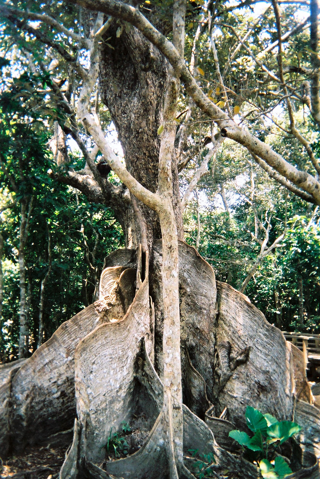 Sakishimasuo. Iriomote island (西表島) Japan August 2007.